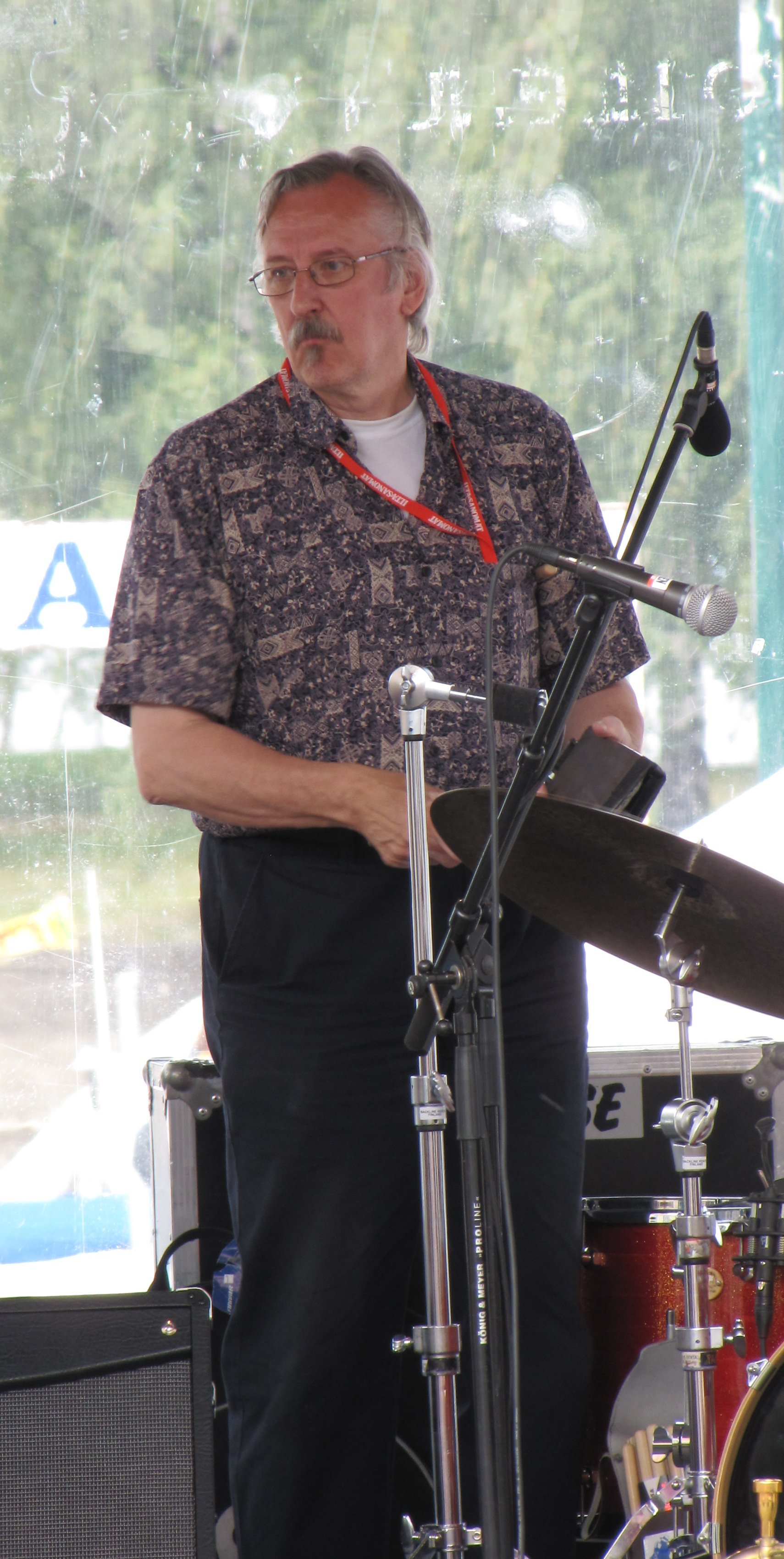 Reino Laine, Finnish jazz drummer, composer and former Member of Parliament of Finland.